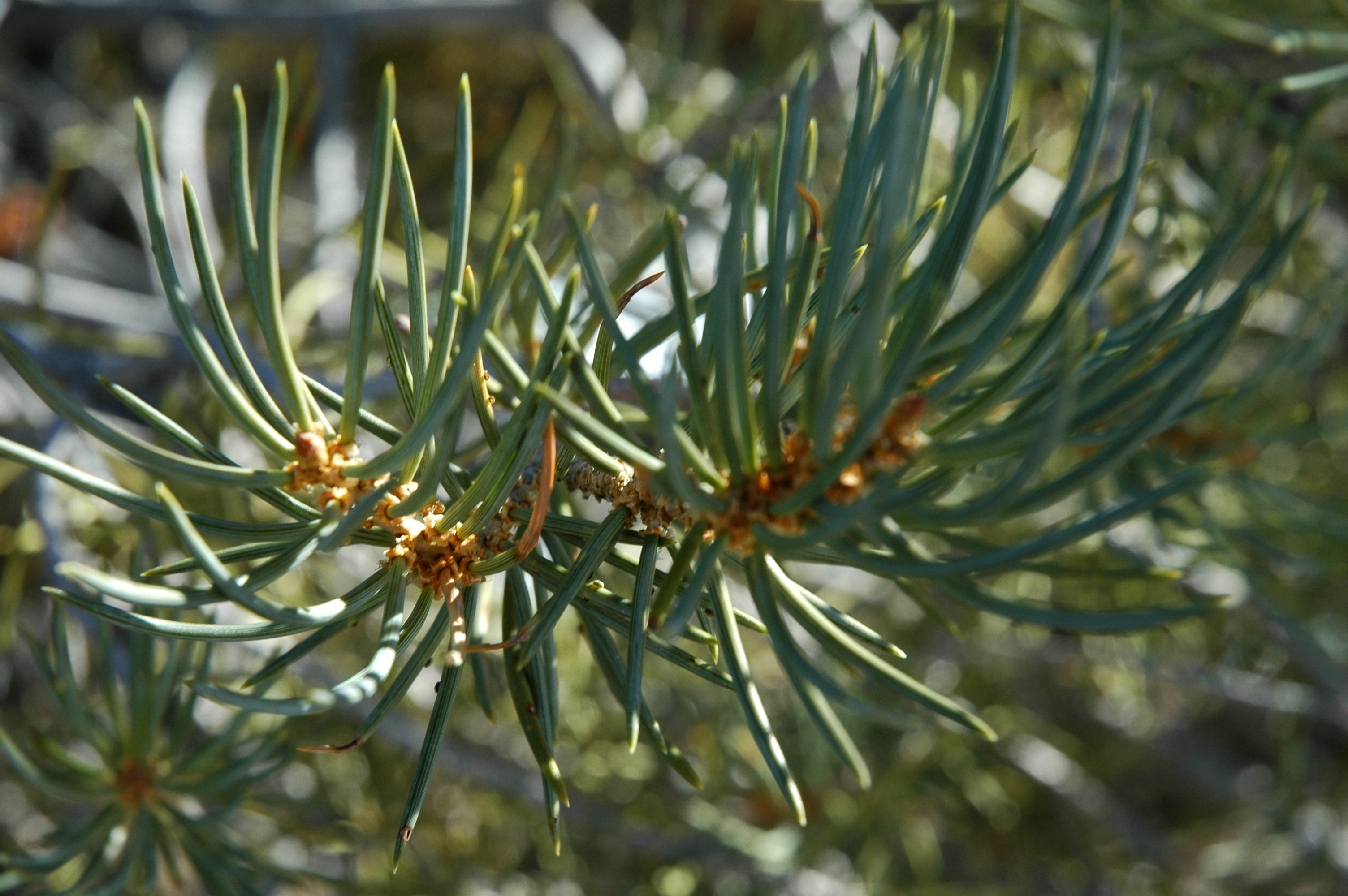 Pinus monophylla foliage. Near entrance to Ancient Bristlecone Pine Forest, White Mts., California.